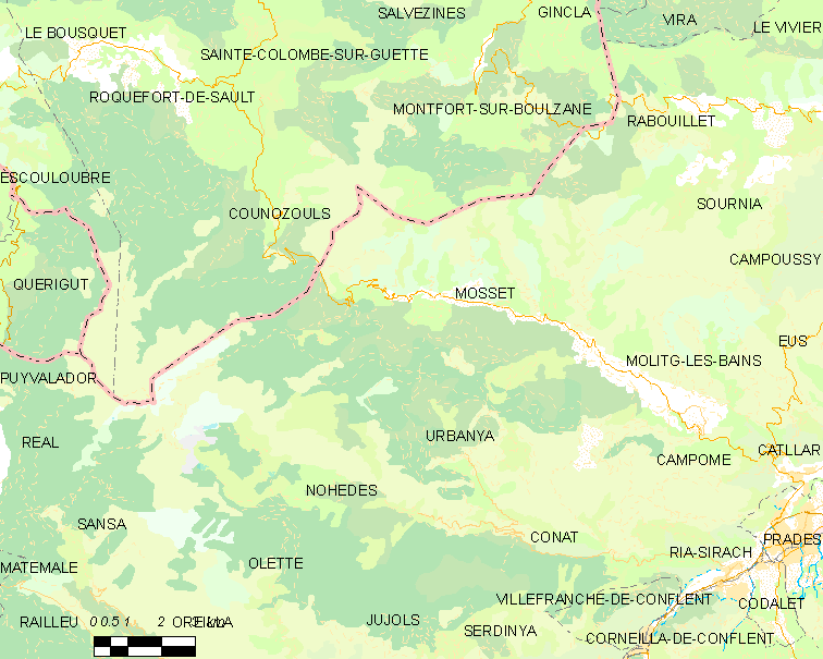 Map of French municipality